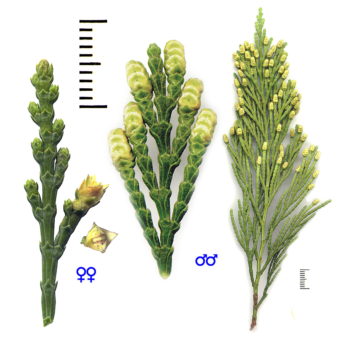 Calocedrus decurrens strobili